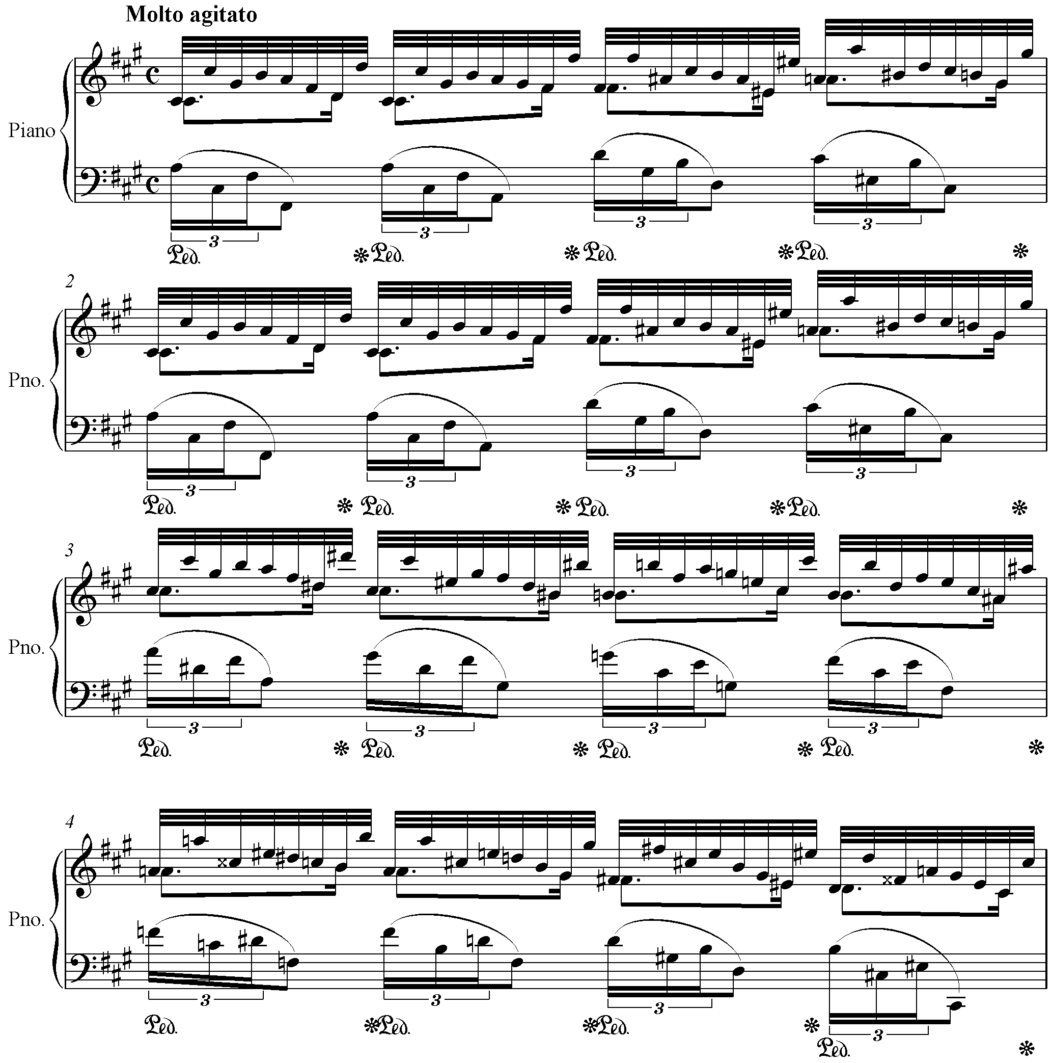 4 first bars of Chopins prelude 8 op. 28